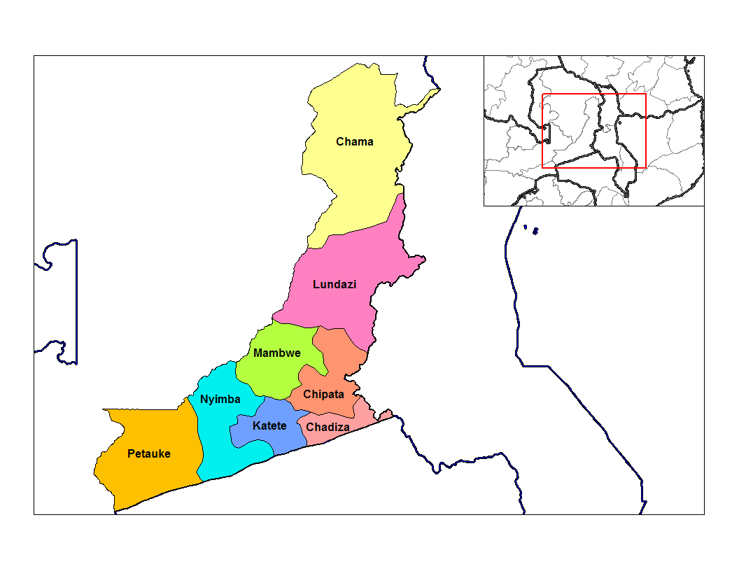 Map of the districts of Eastern province in Zambia. Created by Rarelibra 15:34, 28 December 2006 (UTC) for public domain use, using MapInfo Professional v8.5 and various mapping resources.